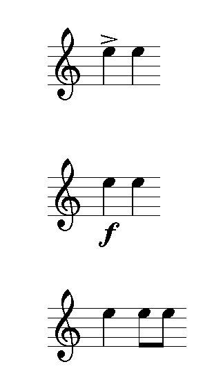 Accented note.